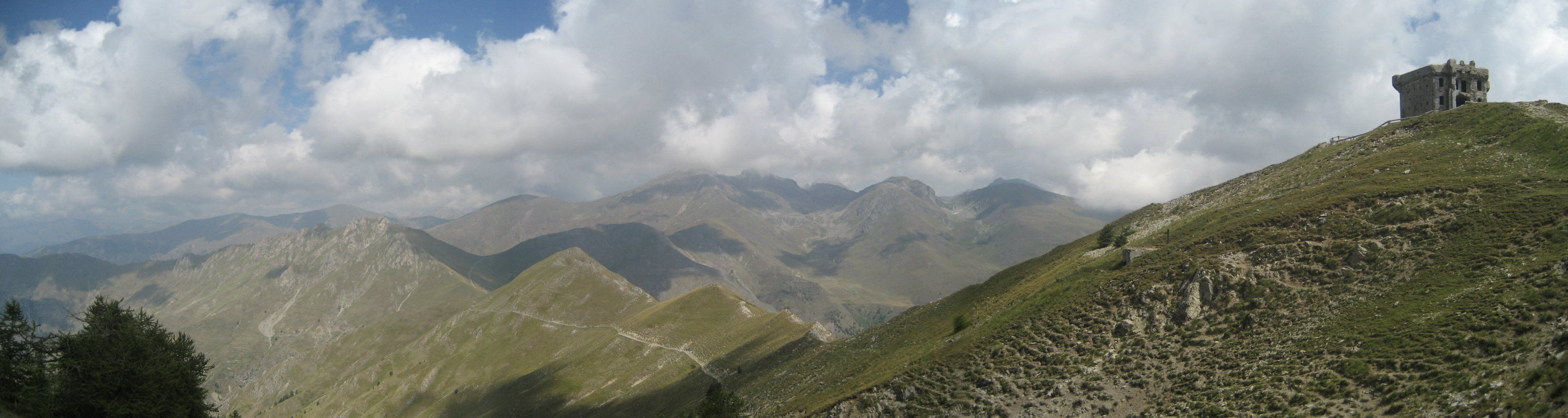 view of La redoute des Trois communes looking north